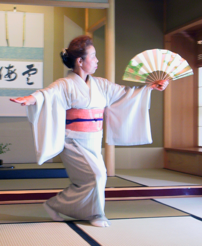 Cropped version of Image:Japanese traditional dancer.jpg